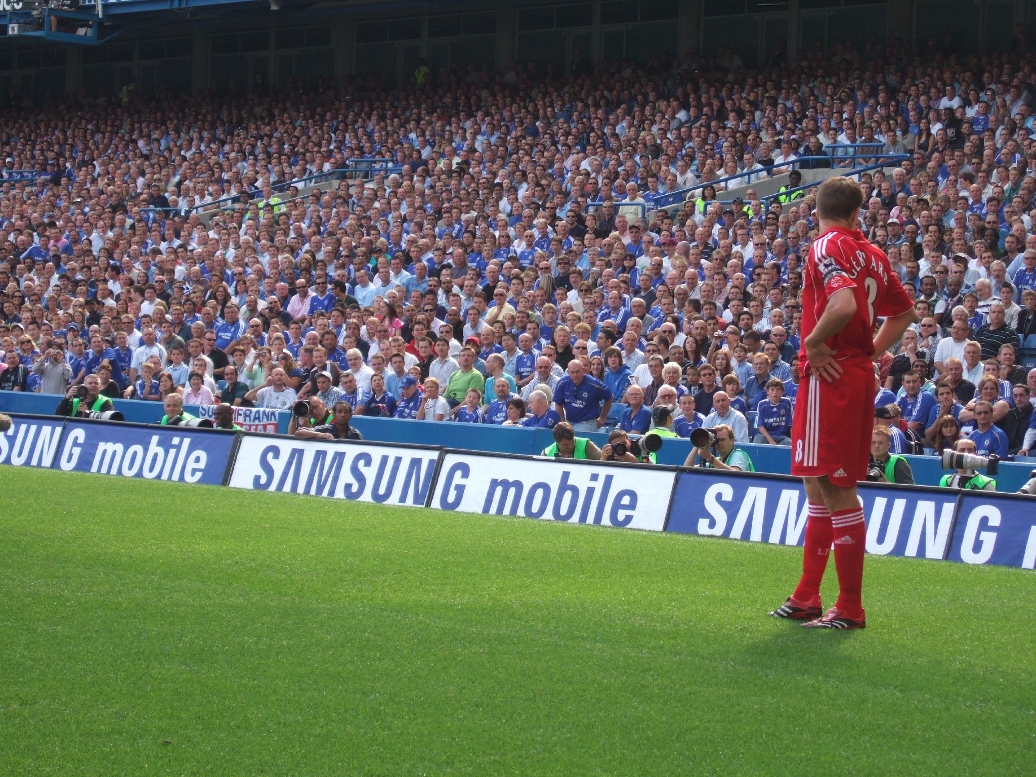 Liverpool's captain Steven Gerrard faces the crowd.